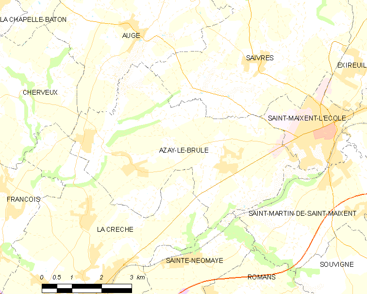 Map of French municipality Azay-le-Brûlé